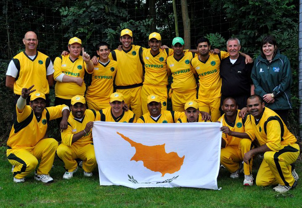 The Cyprus Cricket National team in 2011.In the I.C.C Division 2 T20 Championships held in belgium